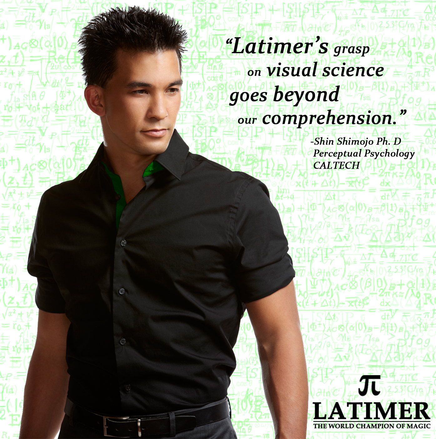 2012 Promotional photo of Jason Latimer World Champion of Magic